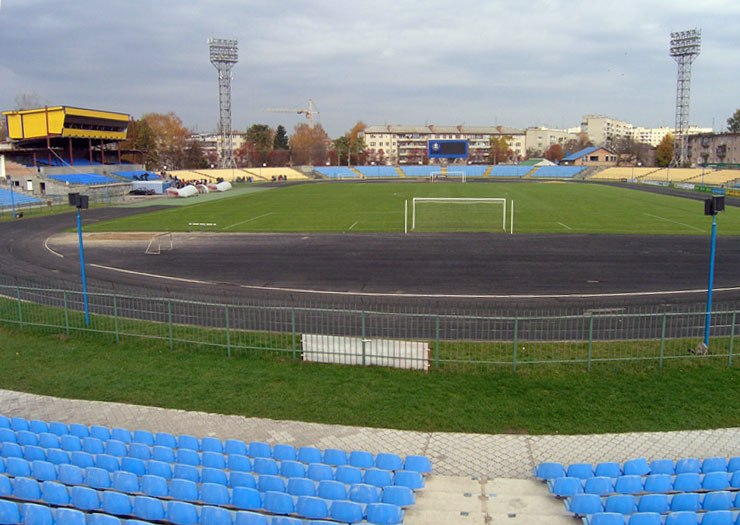 Avangard Stadium, Lutsk